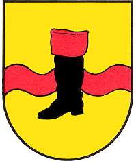 Coat of arms of Gersbach (Pirmasens)